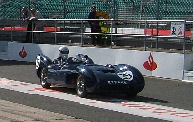 A Lotus MkIX returning to the pits at the Silverstone Classic race meeting, July 2007